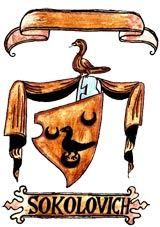 Sokolovic